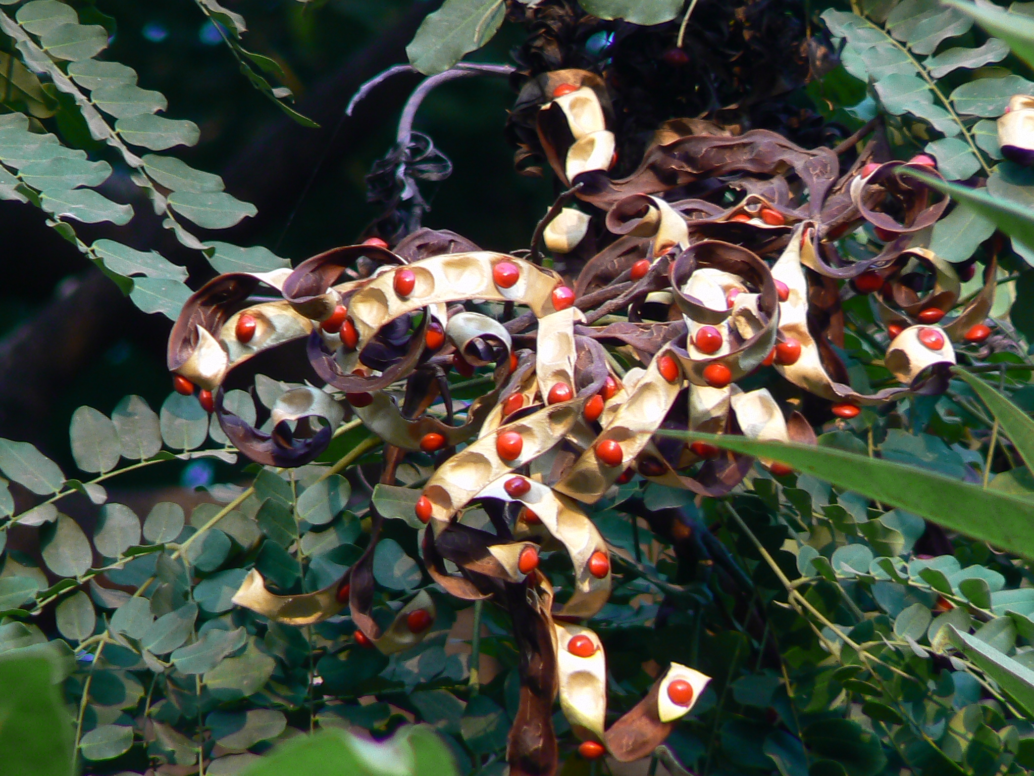 ad-en-AN-ther-uh -- from the Greek aden (gland) and anthera (anther) pav-ON-ee-nuh -- meaning, like a peacock commonly known as: acacia coral, barbados pride, coral bean tree, false wiliwili, peacock flower fence, red sandalwood, saga seed tree • Assamese: raktchandan • Bengali: রঞ্জন ranjana • Gujarati: બડી ગુમ્ચી badigumchi • Hindi: बड़ी गुम्ची badi gumchi, कुचन्दन kuchandana, रक्तचन्दन raktchandan, रंजना ranjana, रतनगुंज ratangunja • Kannada: ane golaganji, manjadi, munjuti • Konkani: होडी मंजोटी hodi manjoti, गूंज gunja, ओडलि गुंजी odlygunji • Malayalam: mancati, manchadi, sem • Marathi: रक्तचंदन raktachandana, रतनगुंज ratangunja, थोरला गुंज thorla gunja • Oriya: sokakainjo • Sanskrit: रक्तचन्दन raktachandana, ताम्रक tamraka, तिलक tilakah • Tamil: மஞ்சாடி manjati, திலம் tilam • Telugu: బండిగురువెంద bandiguruvenda, పెద్దగురుగింజ peddaguruginja Native of: India ... fruits split open as they ripen, to reveal small bright red seeds. ... these attractive seeds have been used as beads in jewellery, leis and rosaries. References: flowers of India • PIER species info • Zipcode Zoo